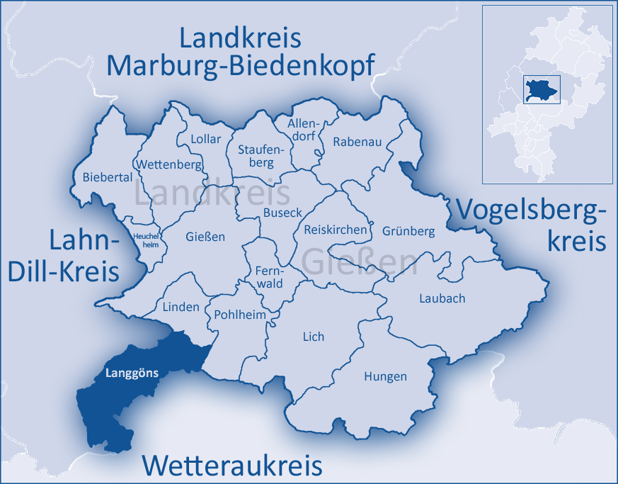 The map shows a district in the area of Gießen (district)